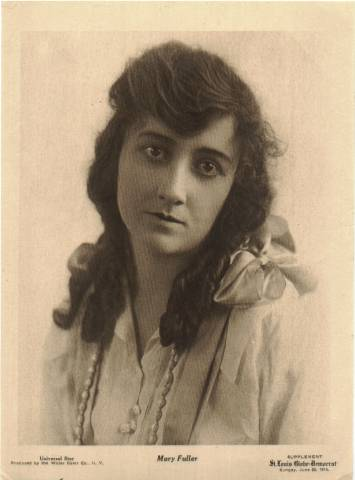 Mary Fuller